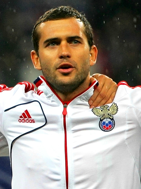 Aleksandr Kerzhakov